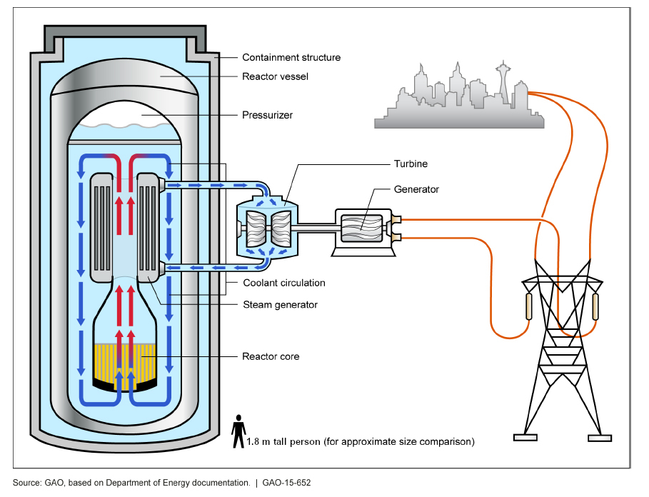 This image is excerpted from a U.S. GAO report: TECHNOLOGY ASSESSMENT: Nuclear Reactors: Status and Challenges in Development and Deployment of New Commercial Concepts